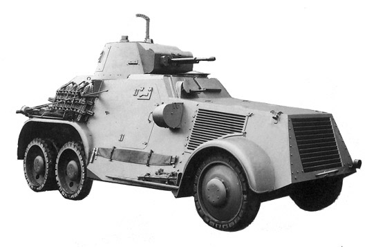 Swedish Landsverk L-180 armoured car